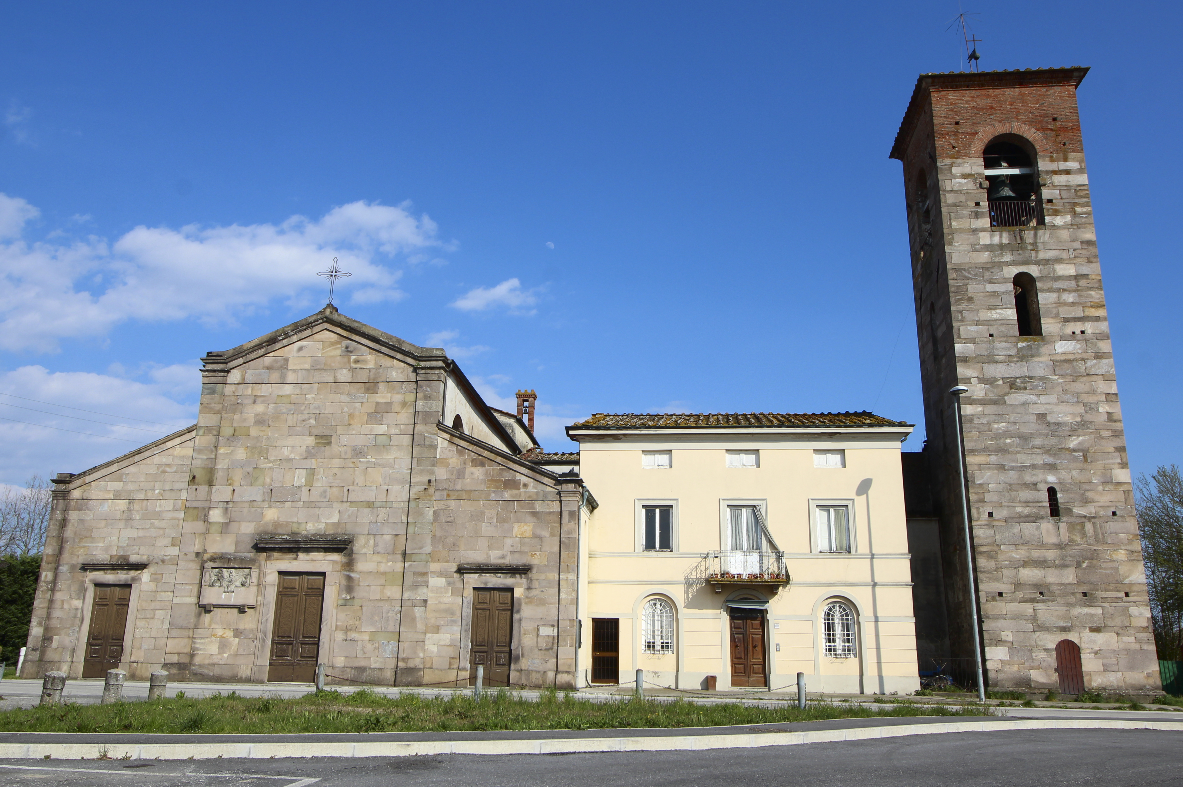 Church Santi Donato e Biagio in Carraia, Carraia, hamlet of Capannori, Province of Lucca, Tuscany, Italy